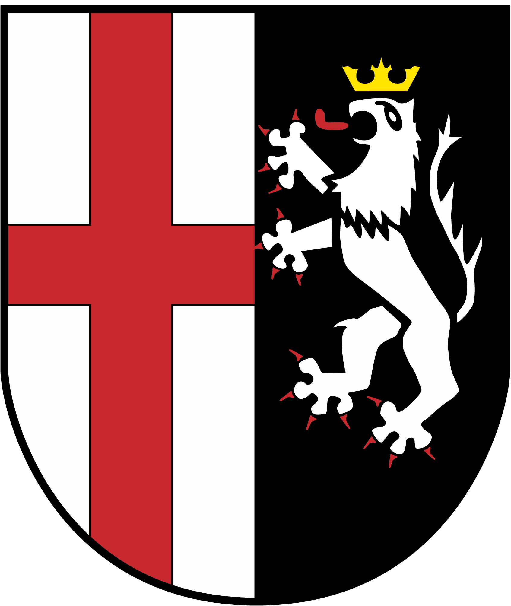 Coat of arms of Wincheringen